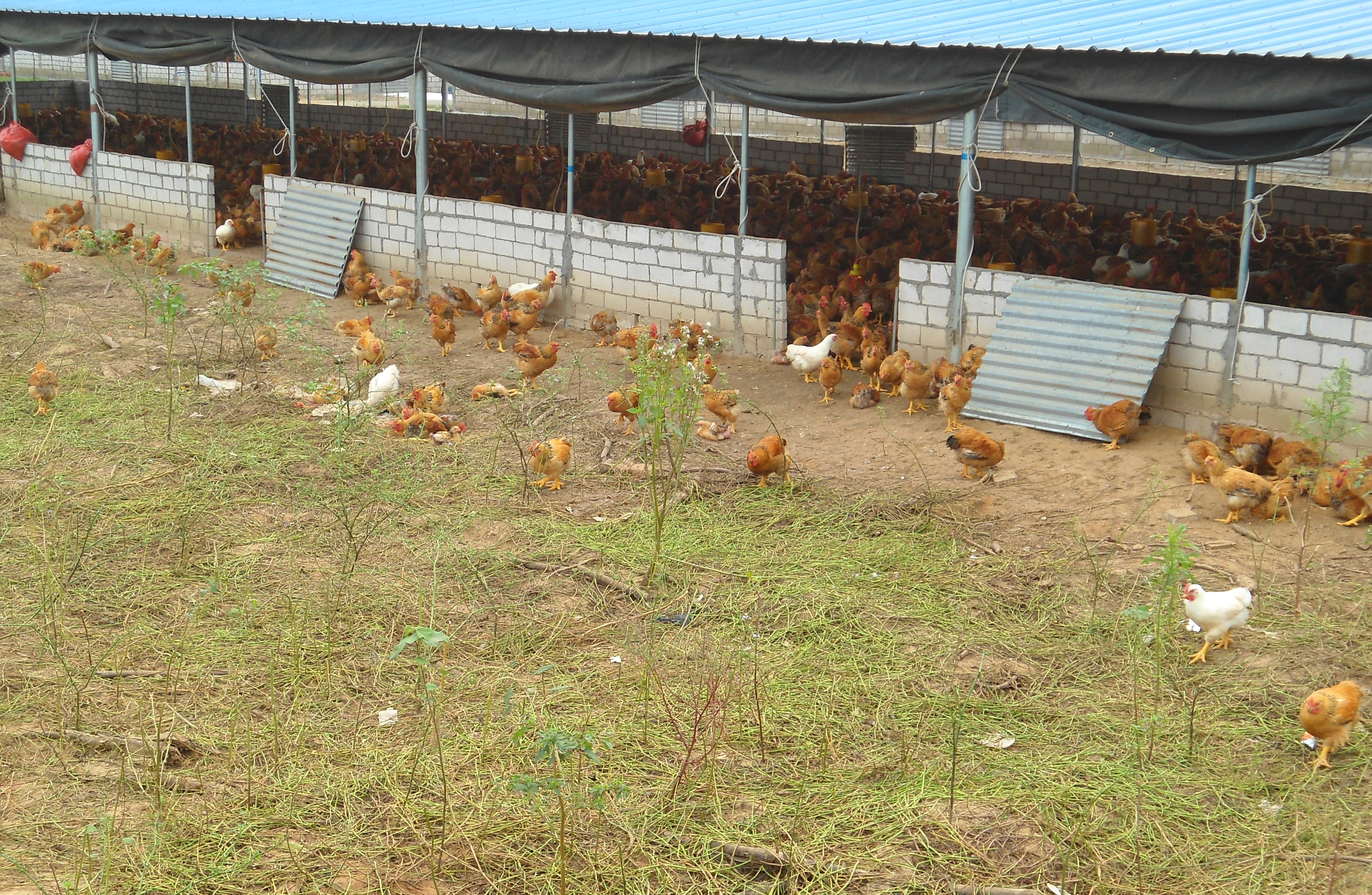 Small poultry operation, Hainan Province, People's Republic of China.